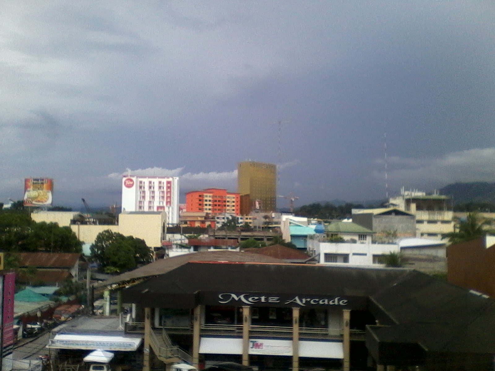 Cagayan de Oro city's view from Lapasan